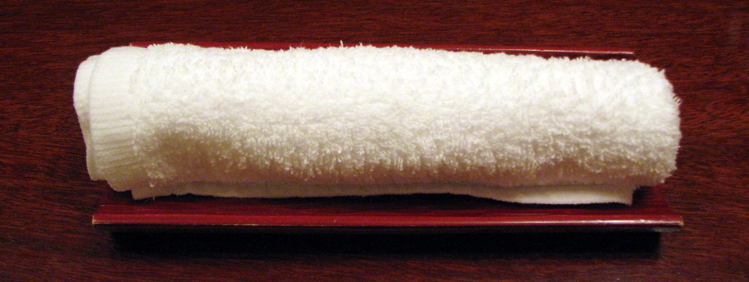 Japanese hot hand towels are commonly given in japanese restaurants before the meal (sometimes also at room temperature or even chilled, depending on the season and the restaurant). Good restaurants give fresh towels at certain points of the course.